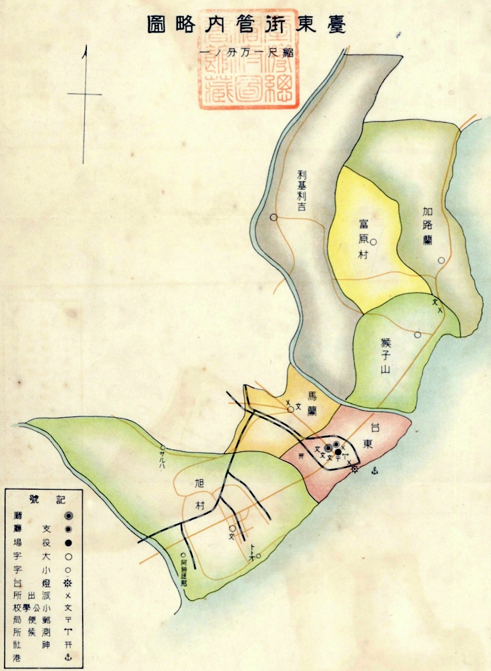 Map of Taitō-gai